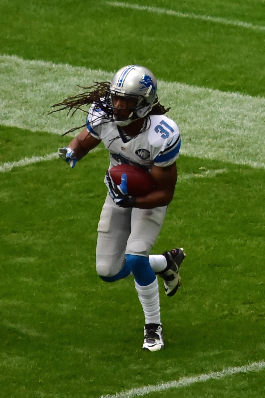 Detroit Lions vs Atlanta Falcons - Wembley 2014